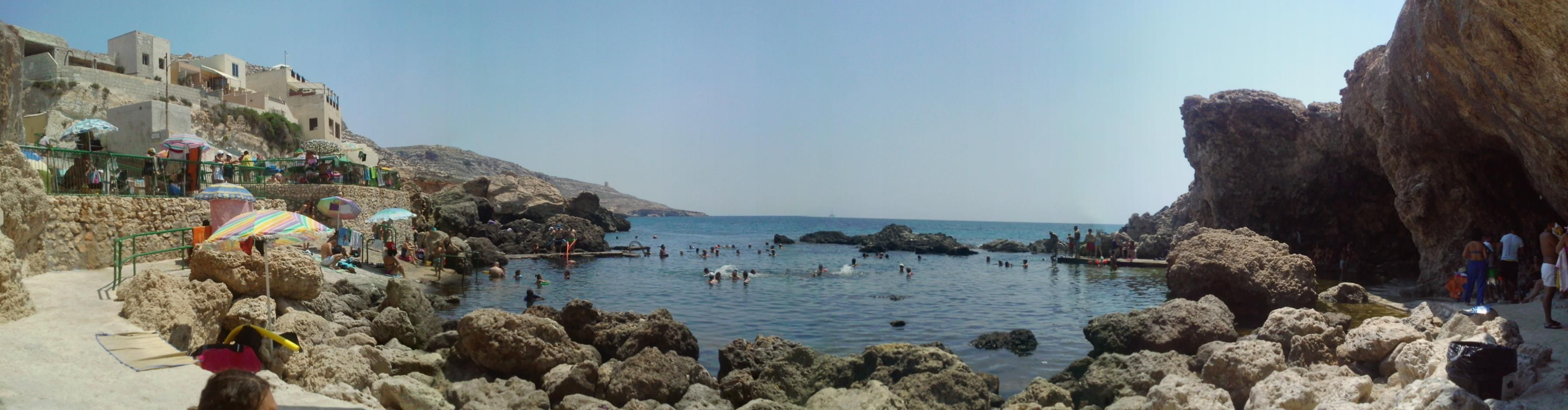 Għar Lapsi bay